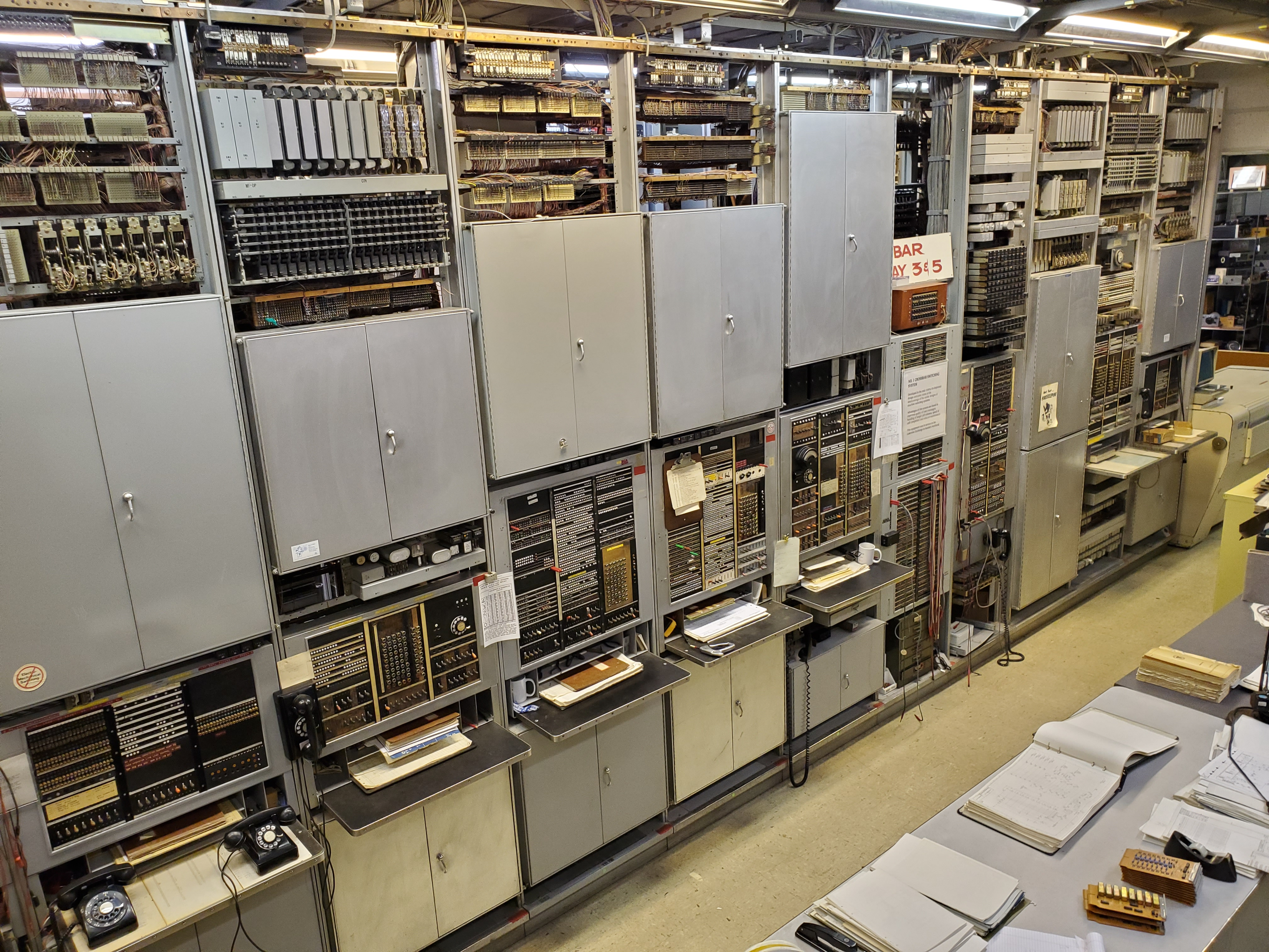 Maintenance center for the VErmont No. 1 Crossbar office at Connections Museum, Seattle. This switch was installed in 1942 and served the neighborhoods of northeast Seattle. From left to right, Incoming Trunk Test (ITT), Terminating Sender Test (TST), Terminating Trouble Indicator (TTI), Originating Trouble Indicator (OTI) Outgoing Trunk Test (OGTT), OGT Jack Bay, Sender Make Busy frame (SMB frame), Originating Sender Test (OST), District Junctor Test (DJT)